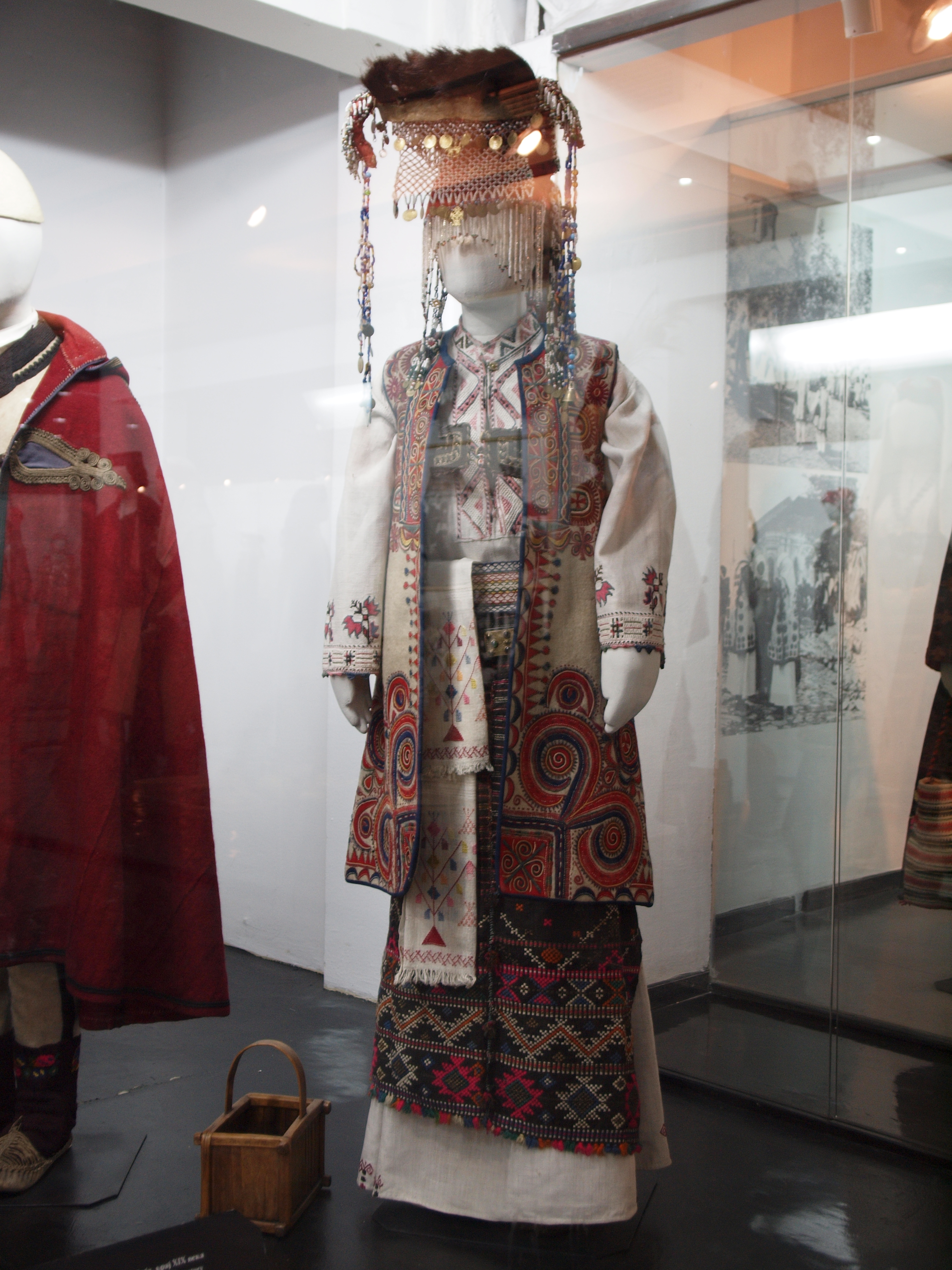 Bridal gown National serbian attire Prizren 19th century Belgrade Ethnographical museum